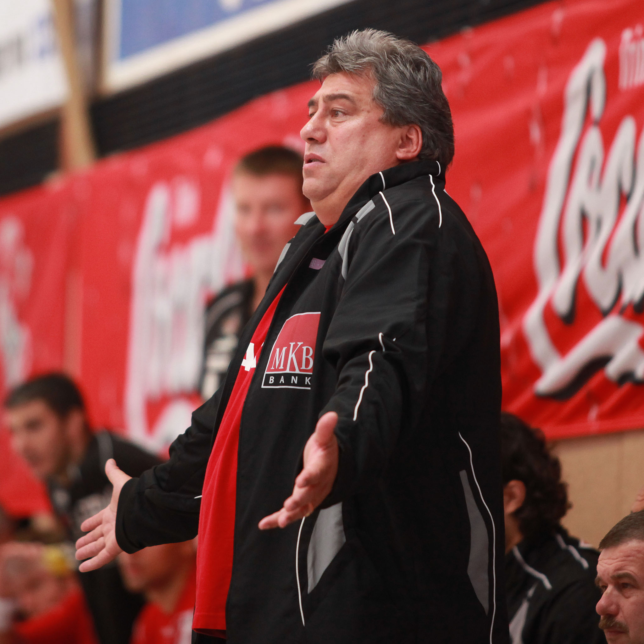 Lajos Mocsai, Hungarian handball coach from MKB Veszprém, on August 22nd, 2009 in Ehingen (Germany), during the Schlecker Cup 2009.